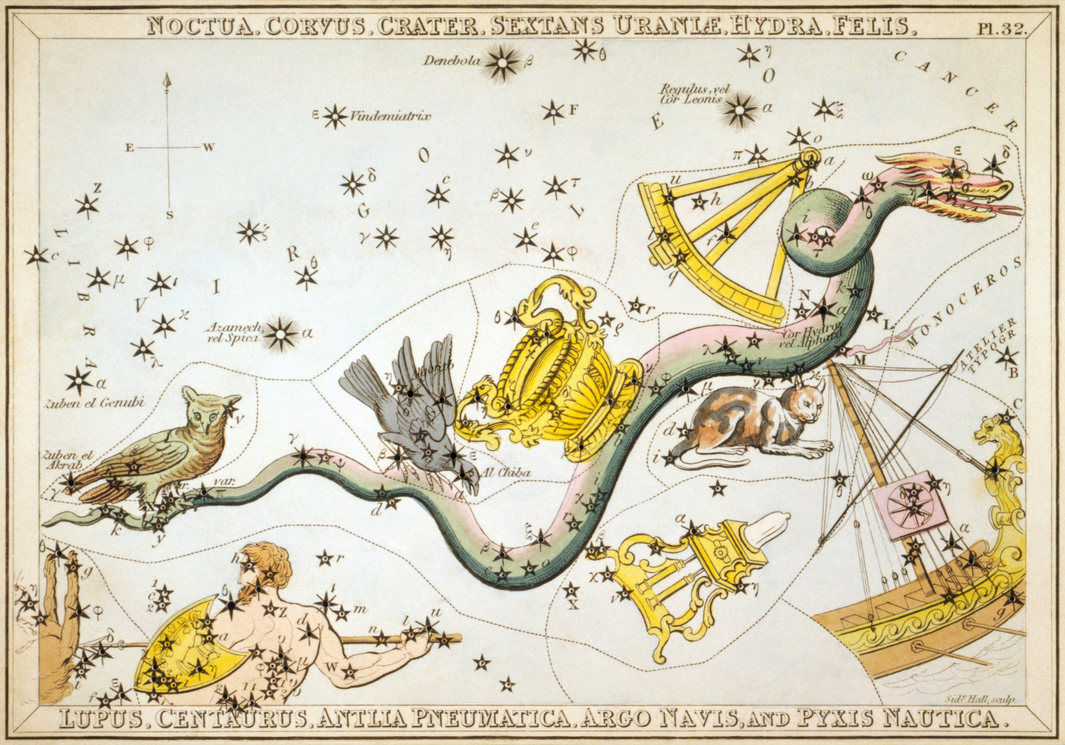 "Noctua, Corvus, Crater, Sextans Uraniæ, Hydra, Felis, Lupus, Centaurus, Antlia Pneumatica, Argo Navis, and Pyxis Nautica", plate 32 in Urania's Mirror, a set of celestial cards accompanied by A familiar treatise on astronomy ... by Jehoshaphat Aspin. London. Astronomical chart, 1 print on layered paper board : etching, hand-colored.